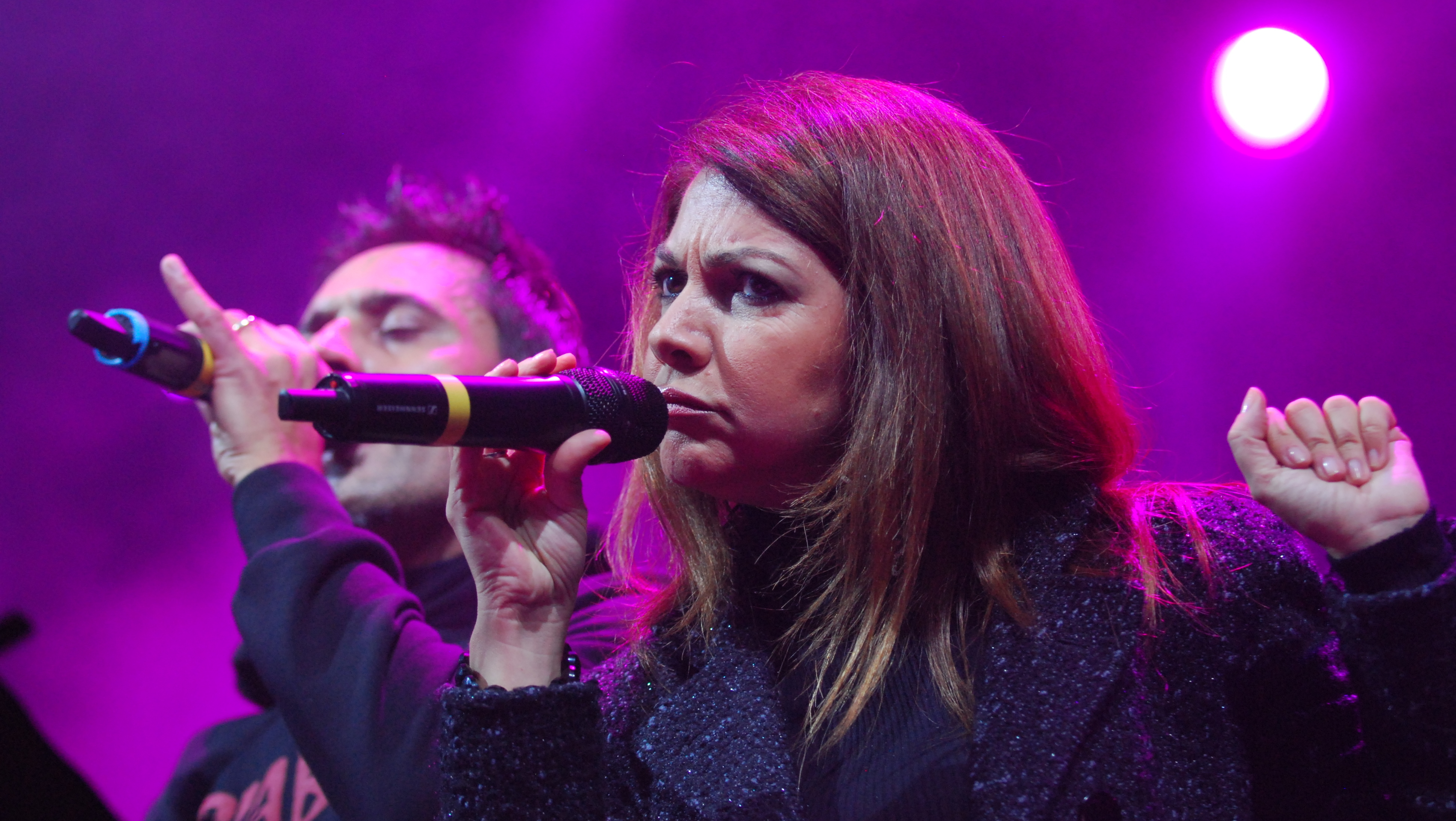 Cristina D'Avena (right) and Giorgio Vanni (left) at Lucca Comics & Games 2011